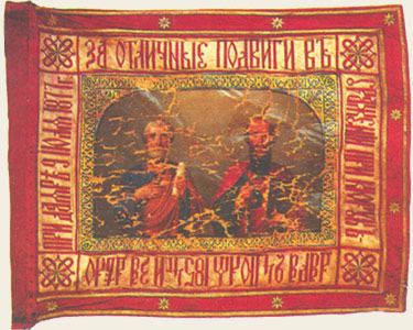 Standard of the Pereâslav 15th Dragoon Regiment